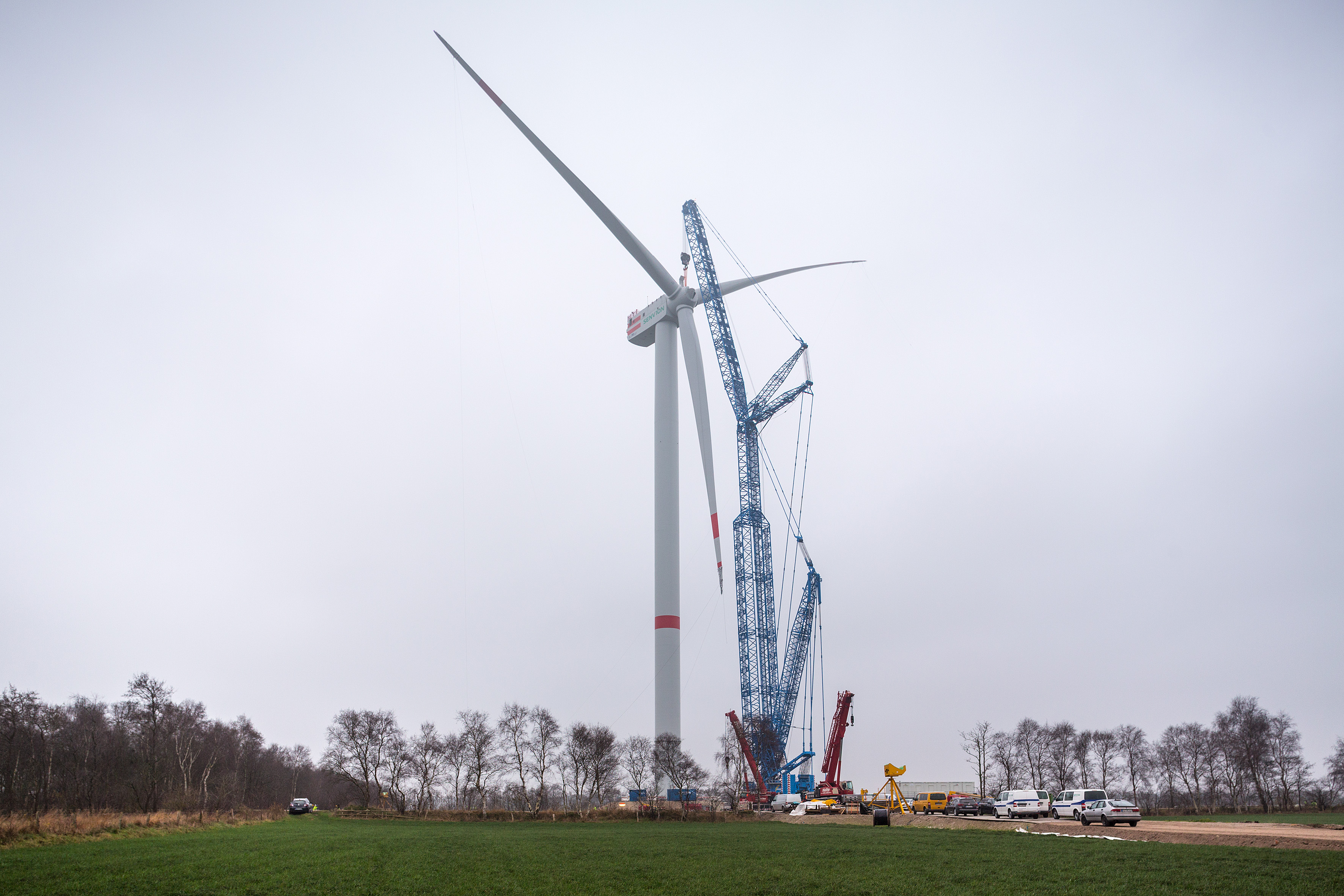 Prototypeninstallation Rotorsternzug 6.2M152 (Neuenwalde)